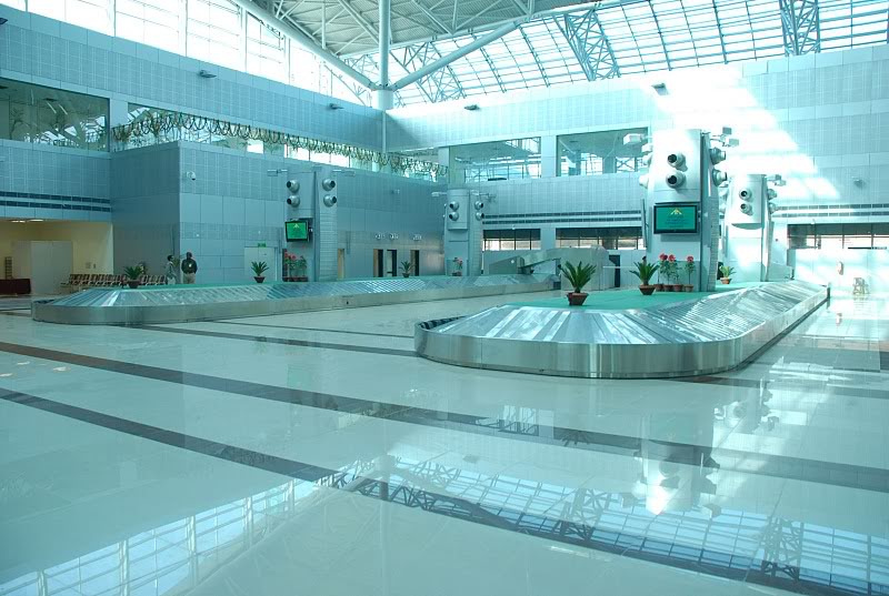 The baggage area in Amritsar airport before its opening.